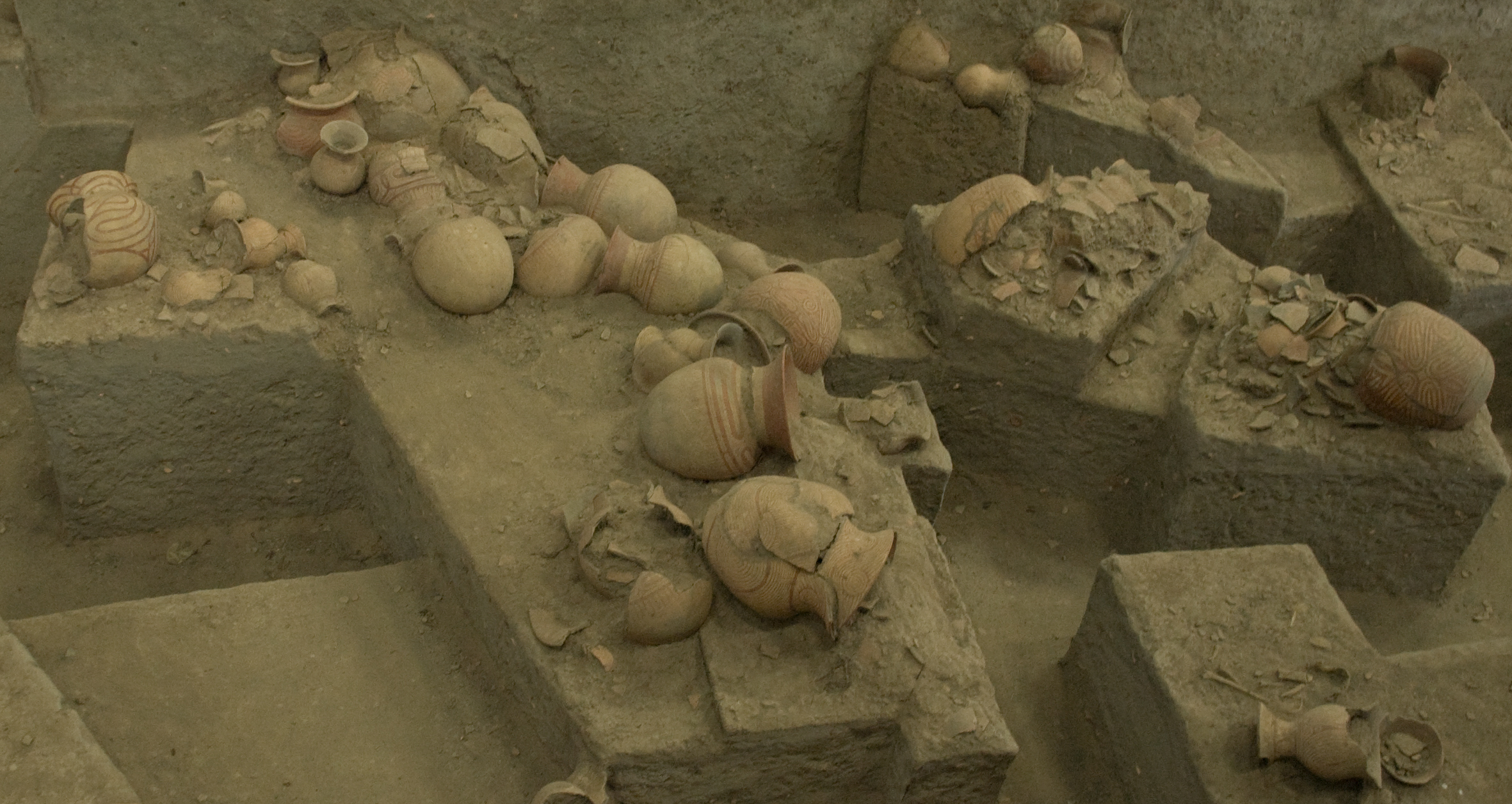 Ban Chiang Thailand, archeological site in North East Thailand. Unesco World Heritage site. Famous for its red pottery. Civilization that lived in Asia 5,000 years ago, and worked in Bronze. Originally thought to be a backwater area of the world in Asia, bronze metal working emerged at the same time as in the middle east, surprising archeologists. The original Ban Chiang people moved on, migrated or were pushed out of the area 1000 years ago. Today's Thai people migrated down from southern China starting 1,000 years ago. Visiting the Ban Chiang site(s) for a day trip while in North East Thailand can't be missed! World Heritage Site Wikipedia